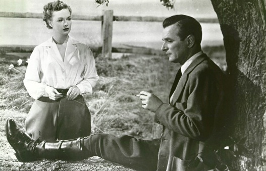 Cropped screenshot of Nigel Patrick and Beatrice Campbell from the trailer for the film Grand National Night.